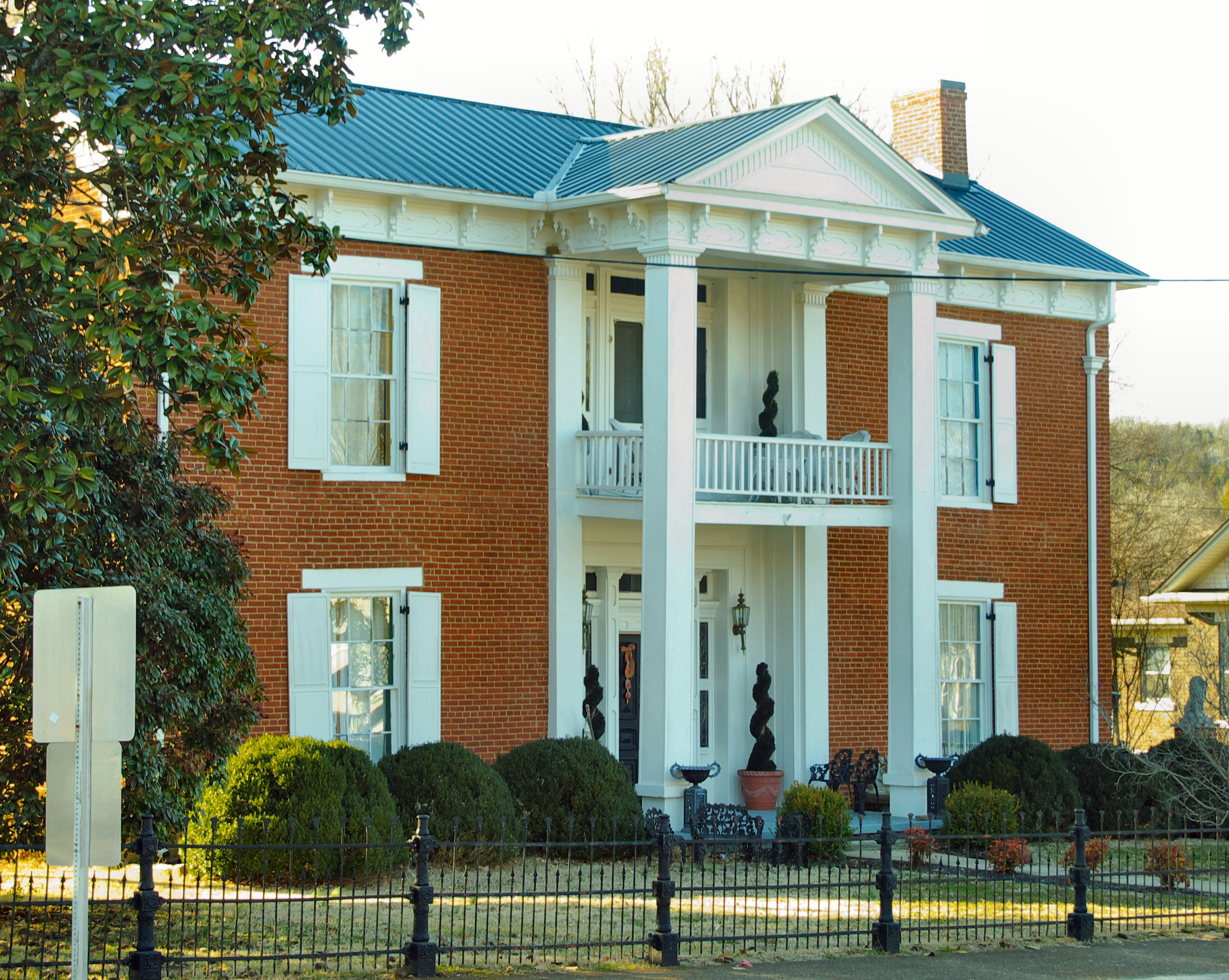 The Adams House in Woodbury, Tennessee, United States. Now a bed-and-breakfast, this house was built in 1859 as a dormitory for the Baptist Female College; used as a house by Dr. J.E. Adams during the early 20th century.